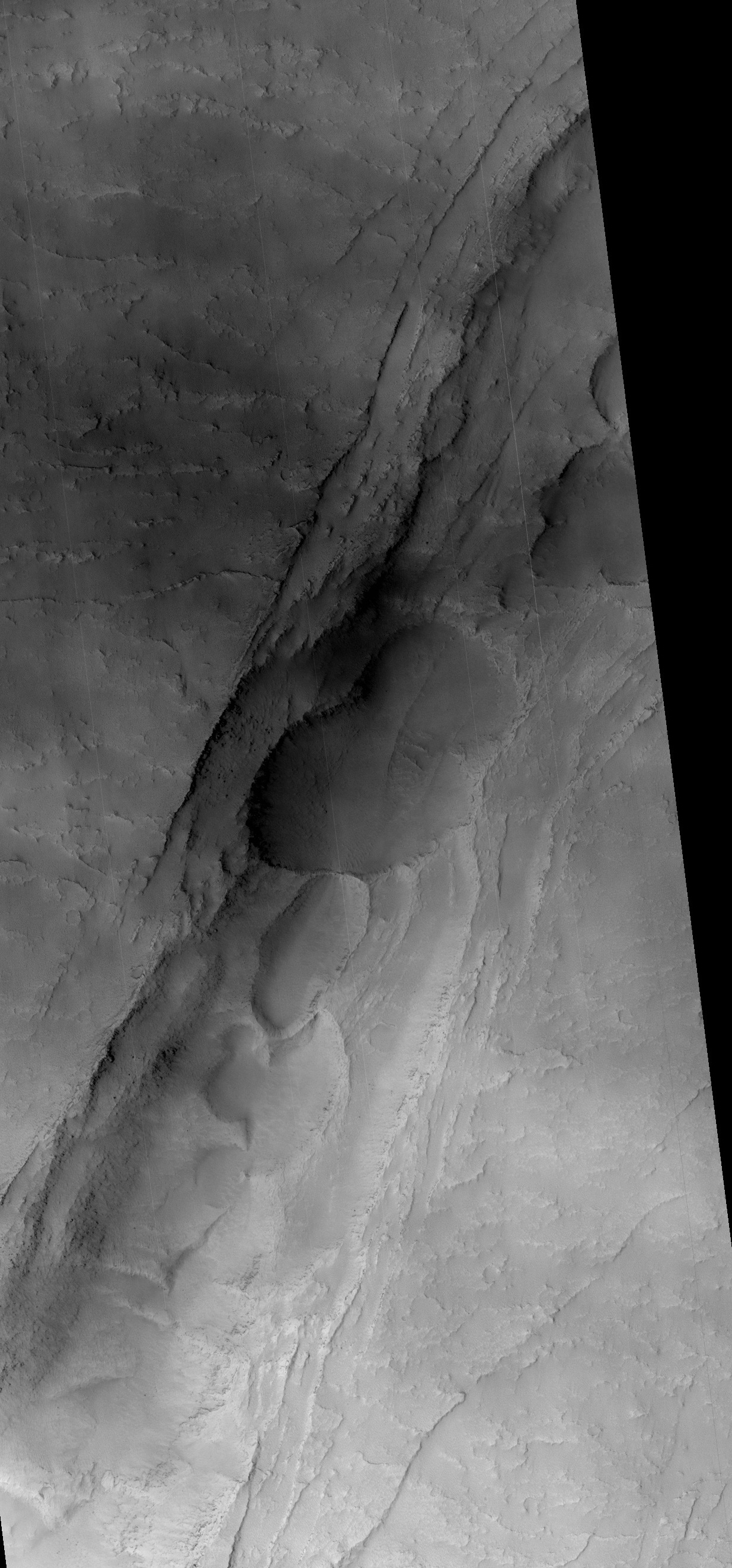 Oti Fossae, as seen by HiRISE. Location is 9.6 degrees south latitude and 243.1 degrees east longitude. Image was taken by the Mars Reconnaissance Orbiter's HiRISE. The HiRISE camera was built by Ball Aerospace and Technology Corporation and is operated by the University of Arizona. Image courtesy NASA/JPL/University of Arizona.